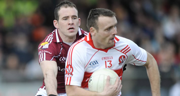 Derry Gaelic footballer Paddy Bradley in action against Galway in a 2009 National League game.